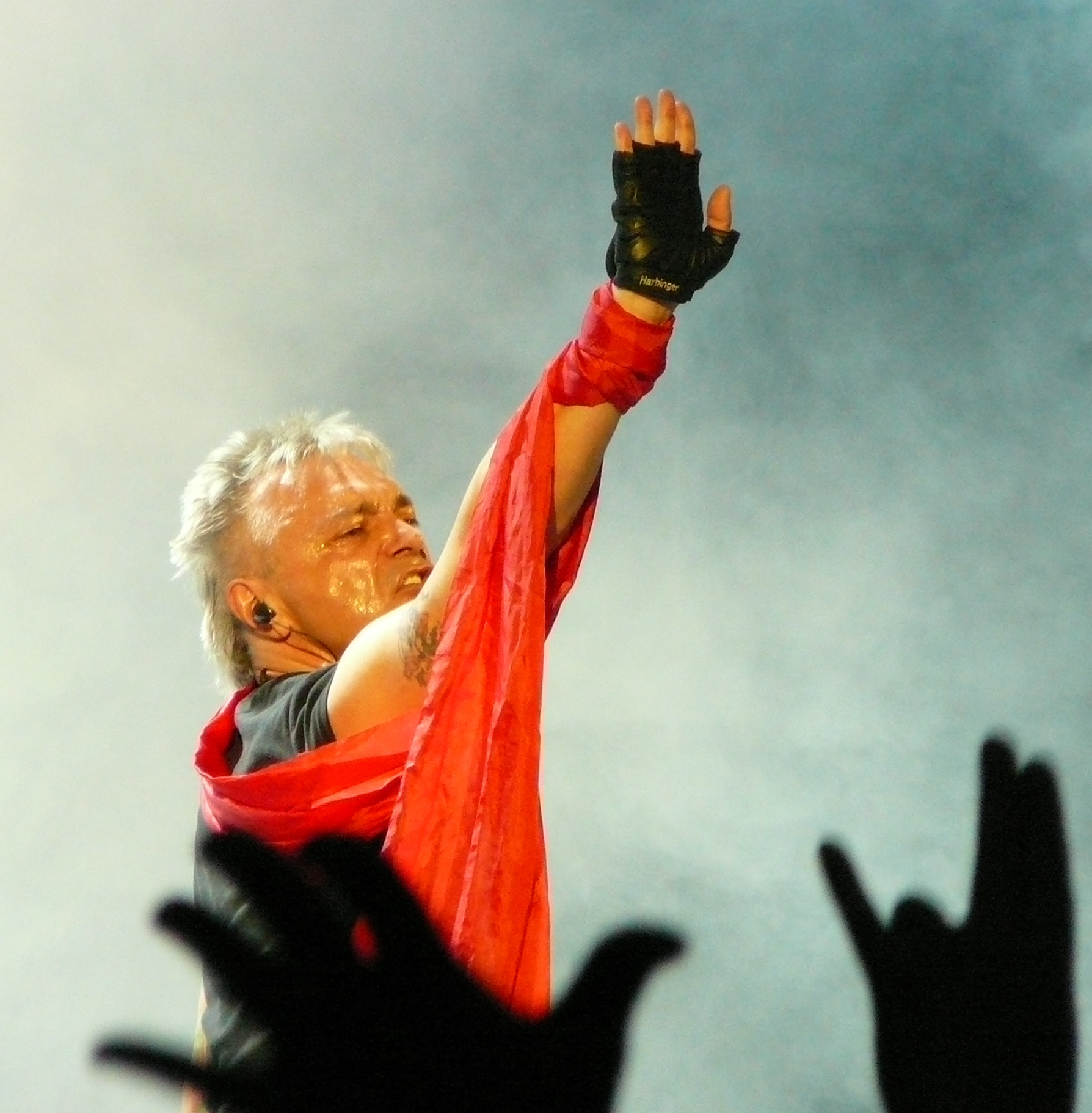 Константин Евгеньевич Кинчев (концерт группы "Алиса" в городе Казани, КСК "УНИКС", 2 мая 2010 года)